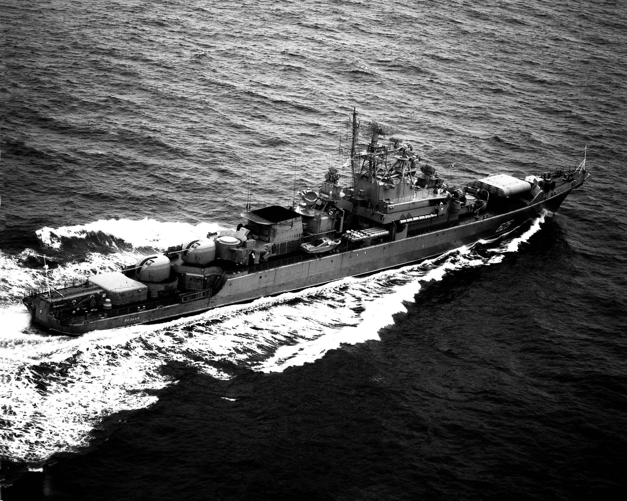 The Soviet Krivak II guided missile frigate REZKIY under way.